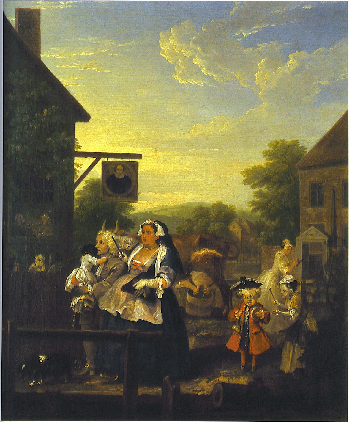 Evening, the third painting from William Hogarth's Four Times of the Day (1736).